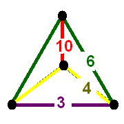 Cantitruncated_120-cell vertex figure